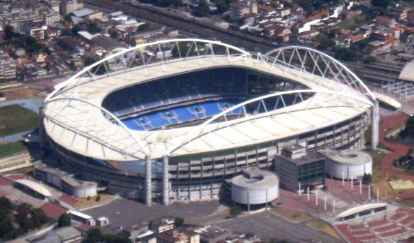 Joao Havelange Olympic Stadium - Rio de Janeiro, Brazil